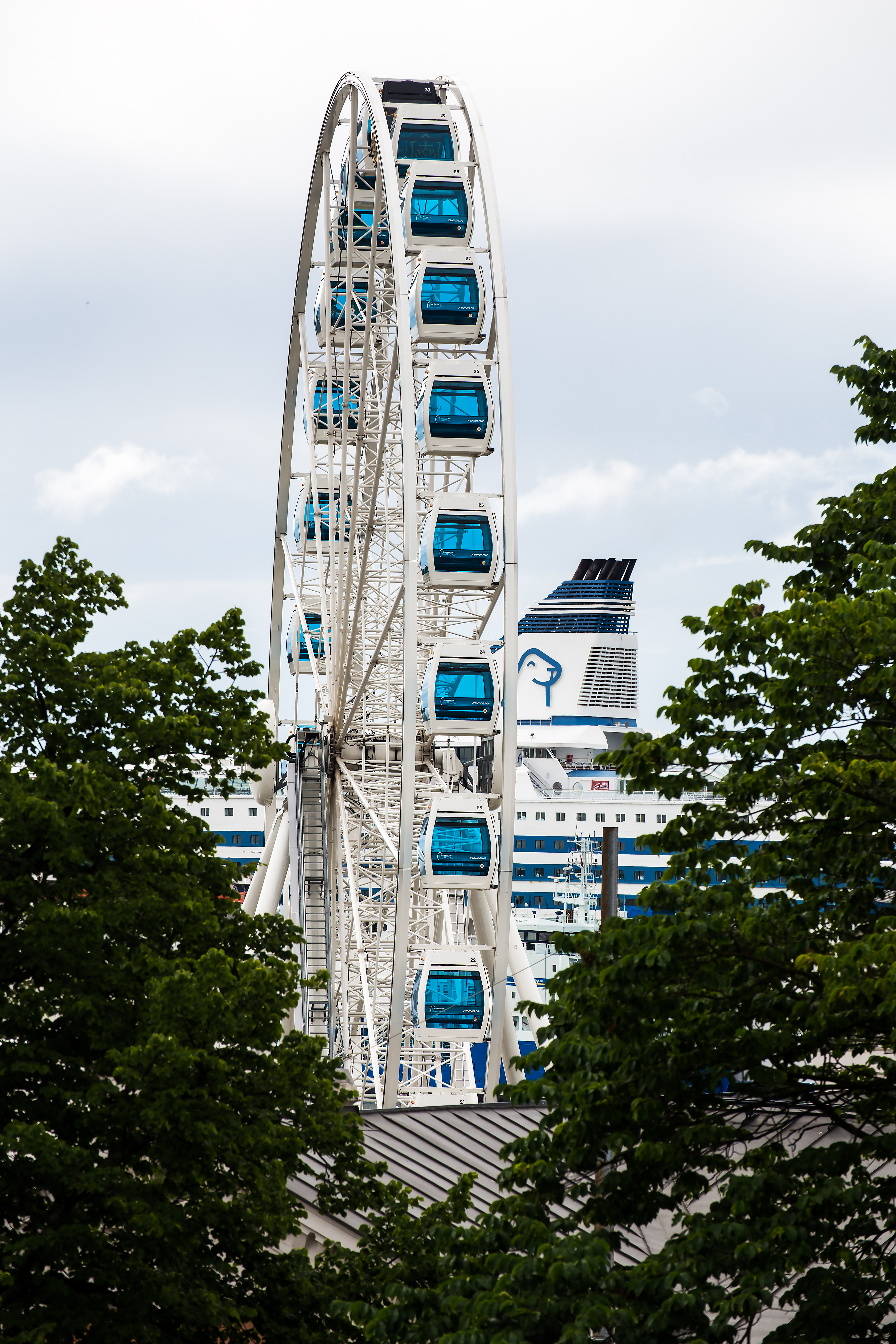 The Finnair Skywheel in Helsinki, Finland